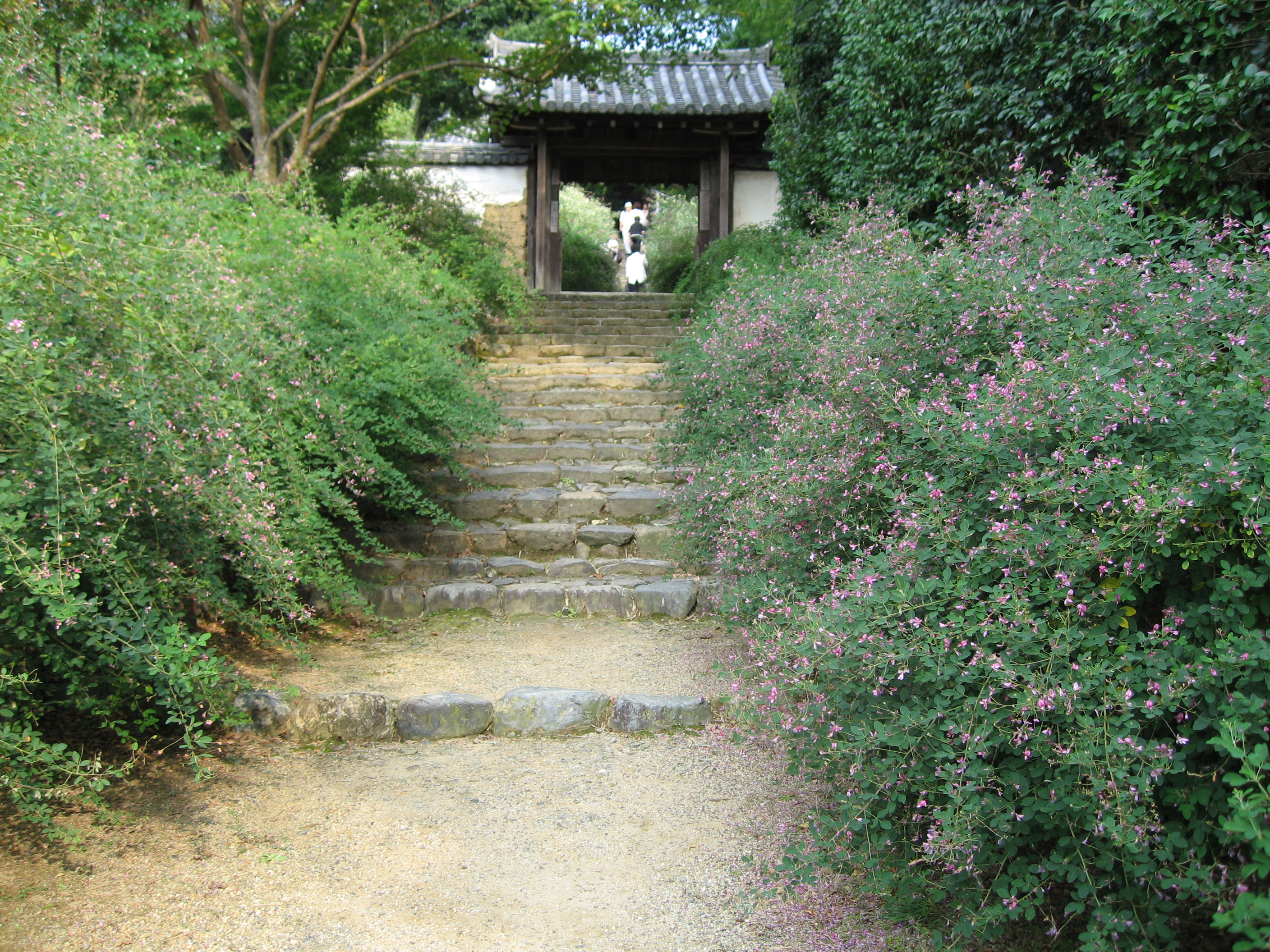 Lespedeza in front of Byakugō-ji Byakugōji Nara-City Nara Pref., Japan.